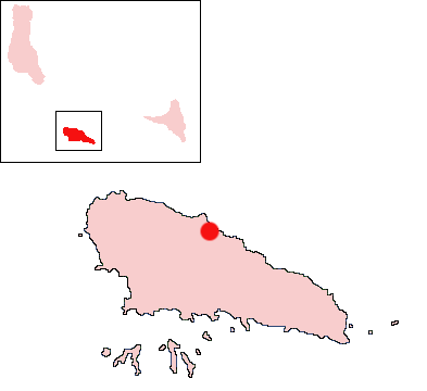 Fomboni, Mohéli, Comoros Location Map; created with the GIMP. Made by User:Acntx.